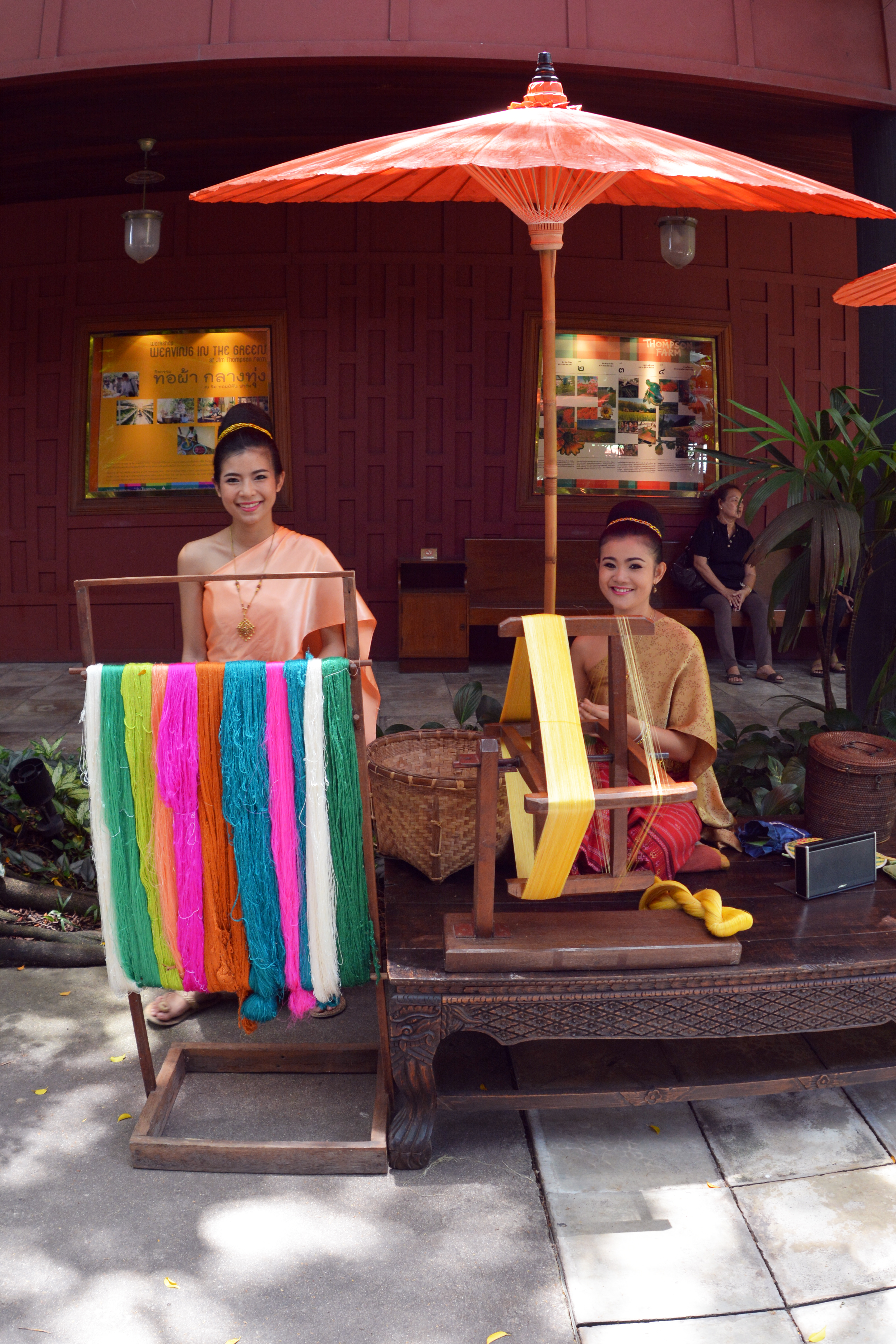 Thai Woman at Silk looms Jim Thompson House photo D Ramey Logan